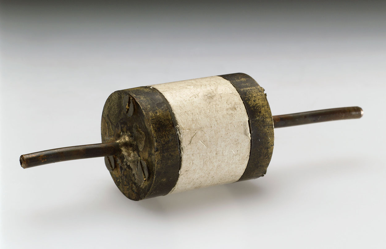 James Lovelock (b 1919), a British chemist and pioneer in the field of environmental science, developed this highly sensitive detector for measuring air pollution in 1960. In the summer of 1967 he measured the supposedly clean air blowing off the Atlantic onto the west coast of Ireland and found that it contained chlorofluorocarbons (CFCs), now known to cause ozone depletion. He elaborated his famous, but controversial, Gaia hypothesis in 1972, in which he proposed that all life on Earth interacts with the physical environment, to form a complex system which can be thought of as a single organism.